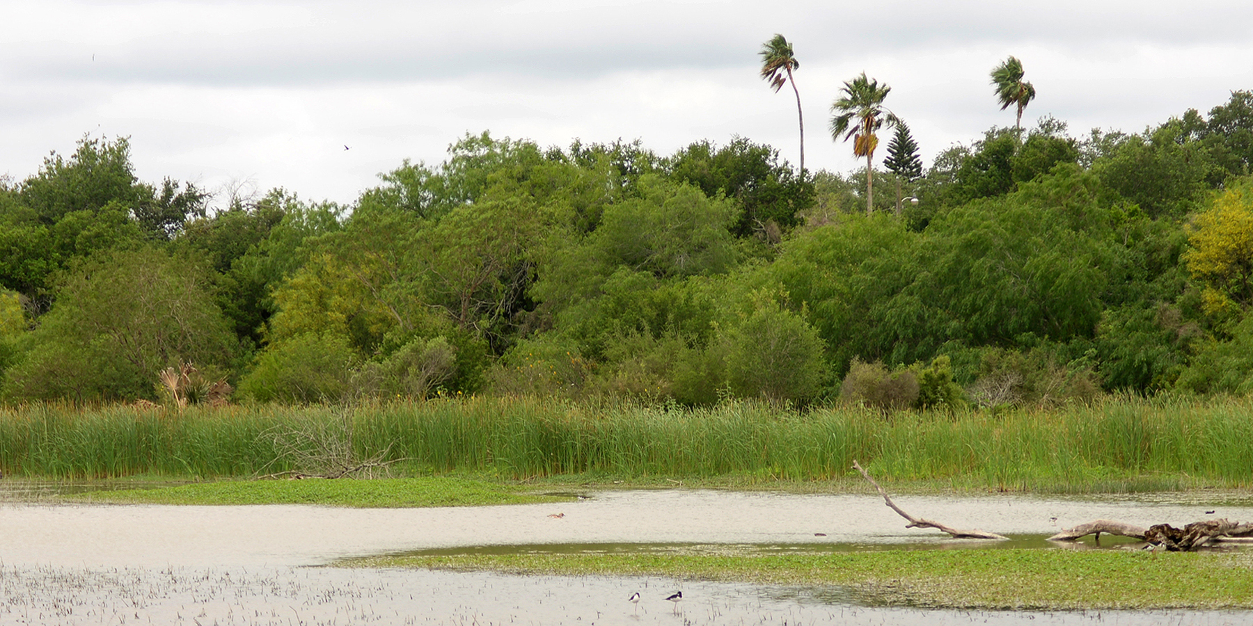 A resaca Estero Llano Grande State Park, Hidalgo County, Texas, USA (26.1260°N, 97.9560°W, 23 m. elev.). Photographed on 13 April 2016 by William L. Farr